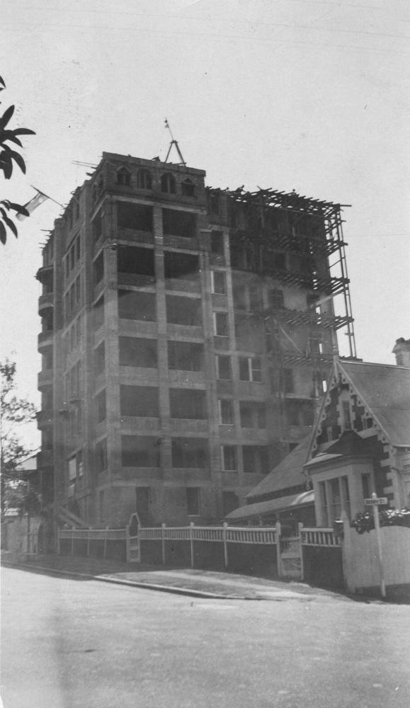 Apartments under construction, Wickham Terrace, ca. 1928. Craigston Apartments under construction at Wickham Terrace, 1927. Designed by architect Arnold Conrad, Brisbane's first high rise apartment block rose seven stories. The apartment block towers over the adjacent house. The building is unfinished and some wooden scaffolding can be seen. The verandah, bay window, gable and gate of the house are visible.